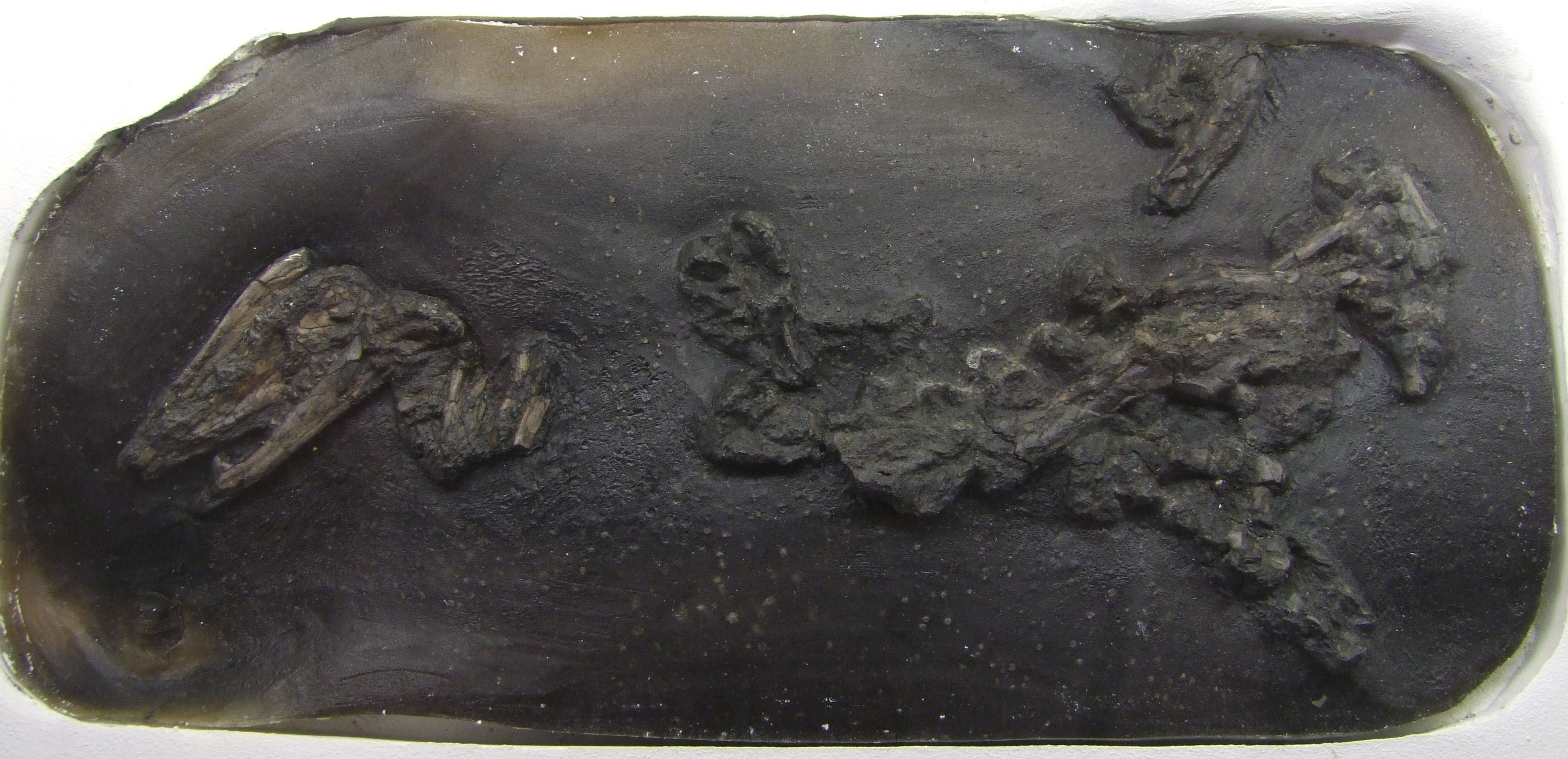 skeleton of Leptictidium from the Geiseltal, Germany, Middle Eocene; took the picture in the Geiseltalmuseum, Halle (Saxony-Anhalt)